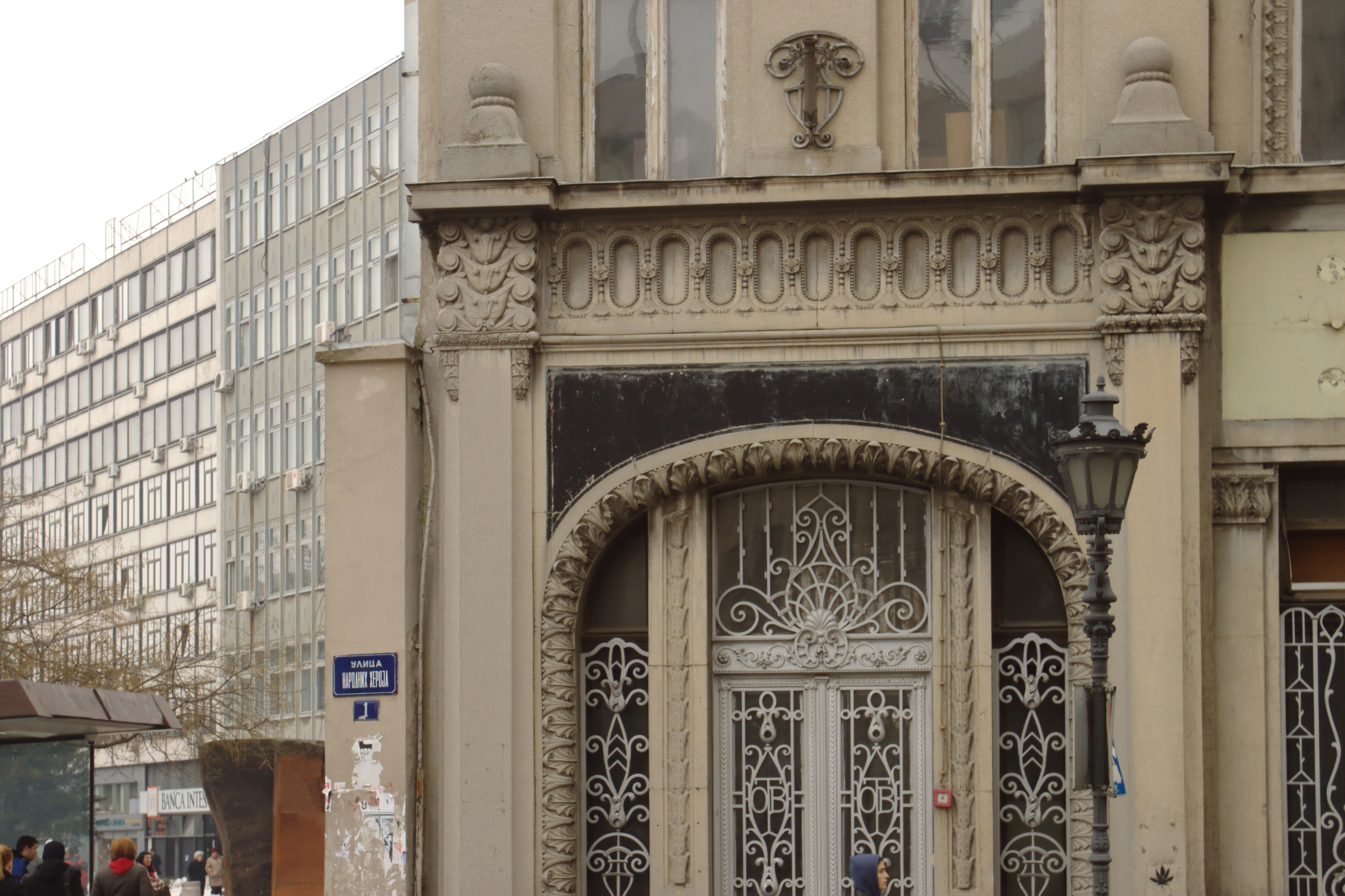 An Art Noveau window on the facade of an apartment building in Novi Sad, Serbia